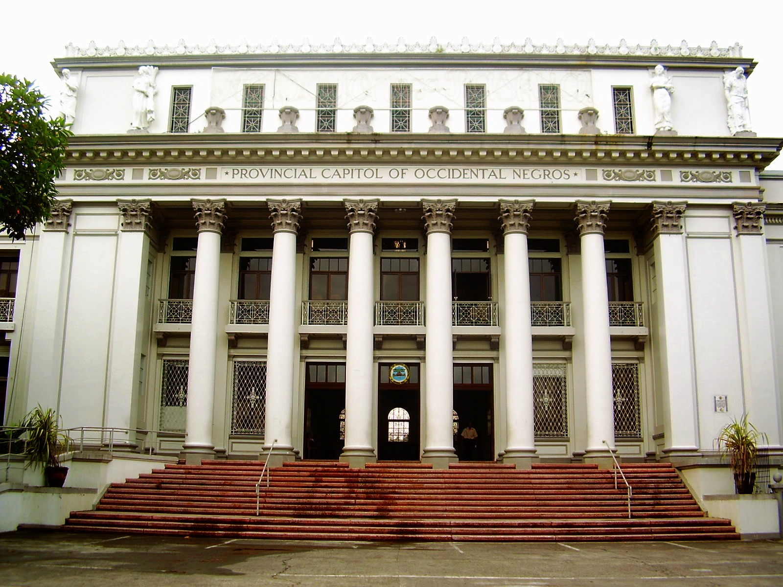 The colonnades and wide steps at the facade of the building.